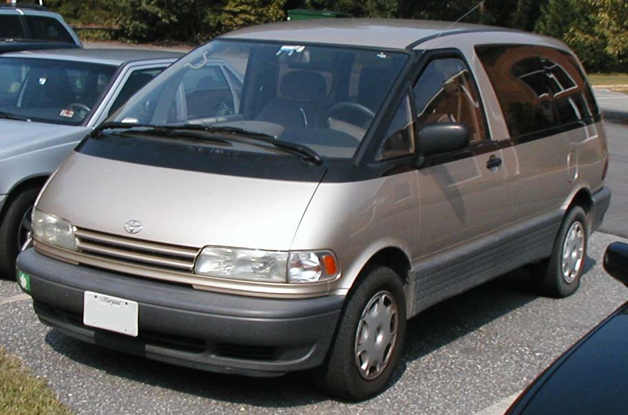 1990-1996 Toyota Previa photographed in USA.